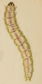 Stainton’s Natural History of the Tineina (1855–1873): Callisto denticulella